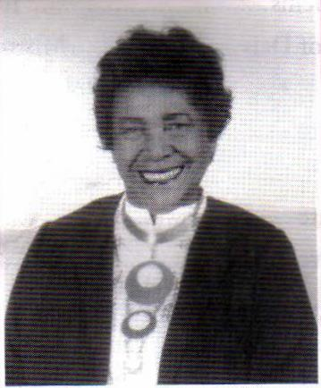 Hon. Iris W. King, Commander, OD